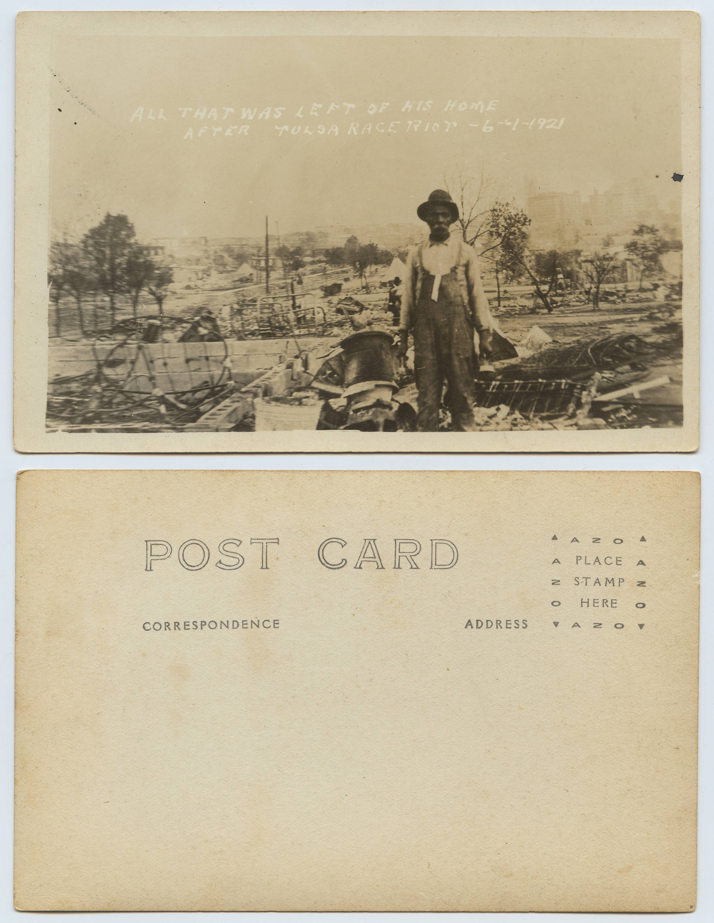 Recto: [handwritten on negative] All That Was Left of His Home after the Tulsa Race Riot - 6 - 1 - 21